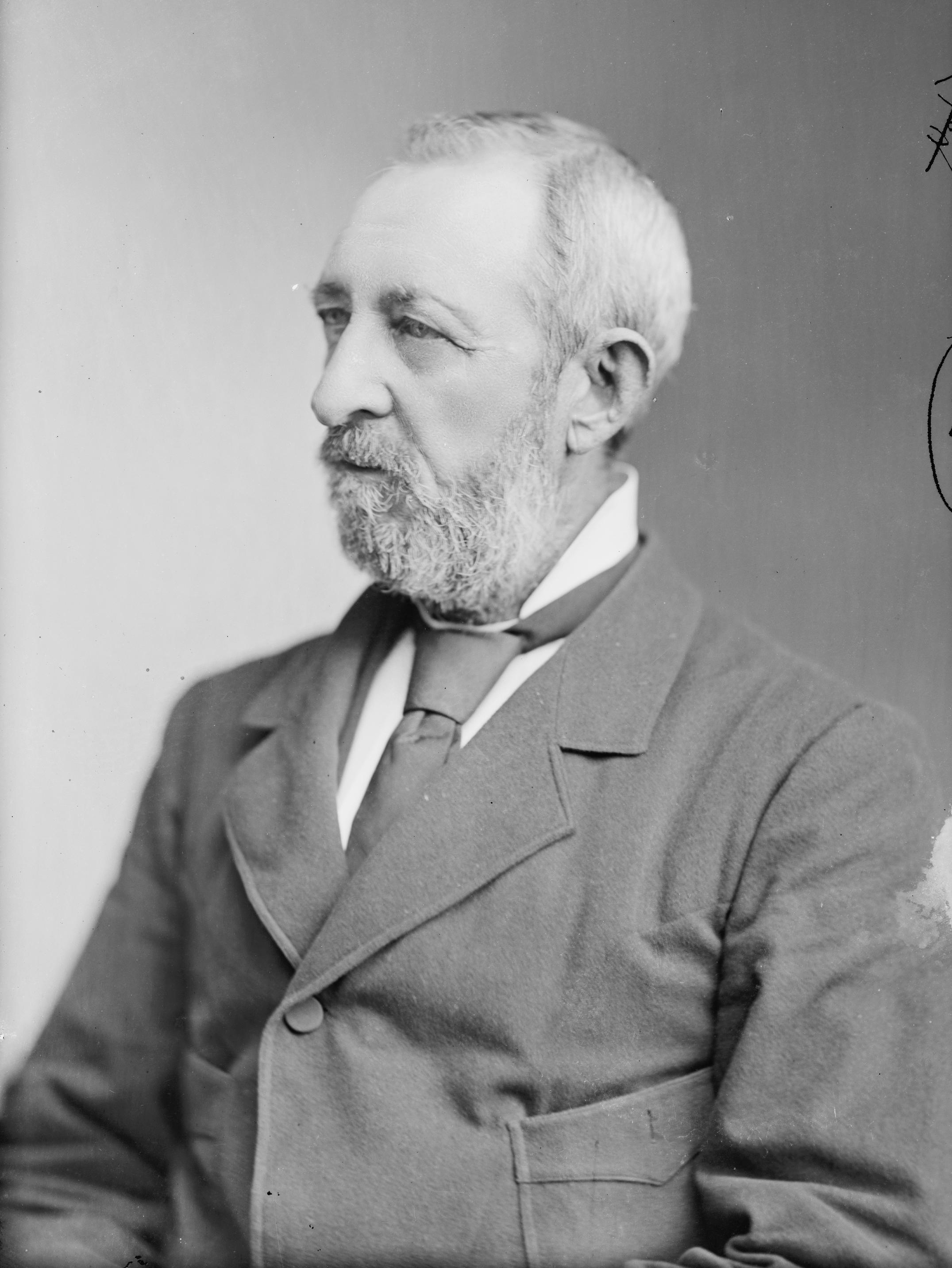 Daniel Ammen. Library of Congress description: "Ammen, Com. Daniel U.S.N. (not in uniform)"